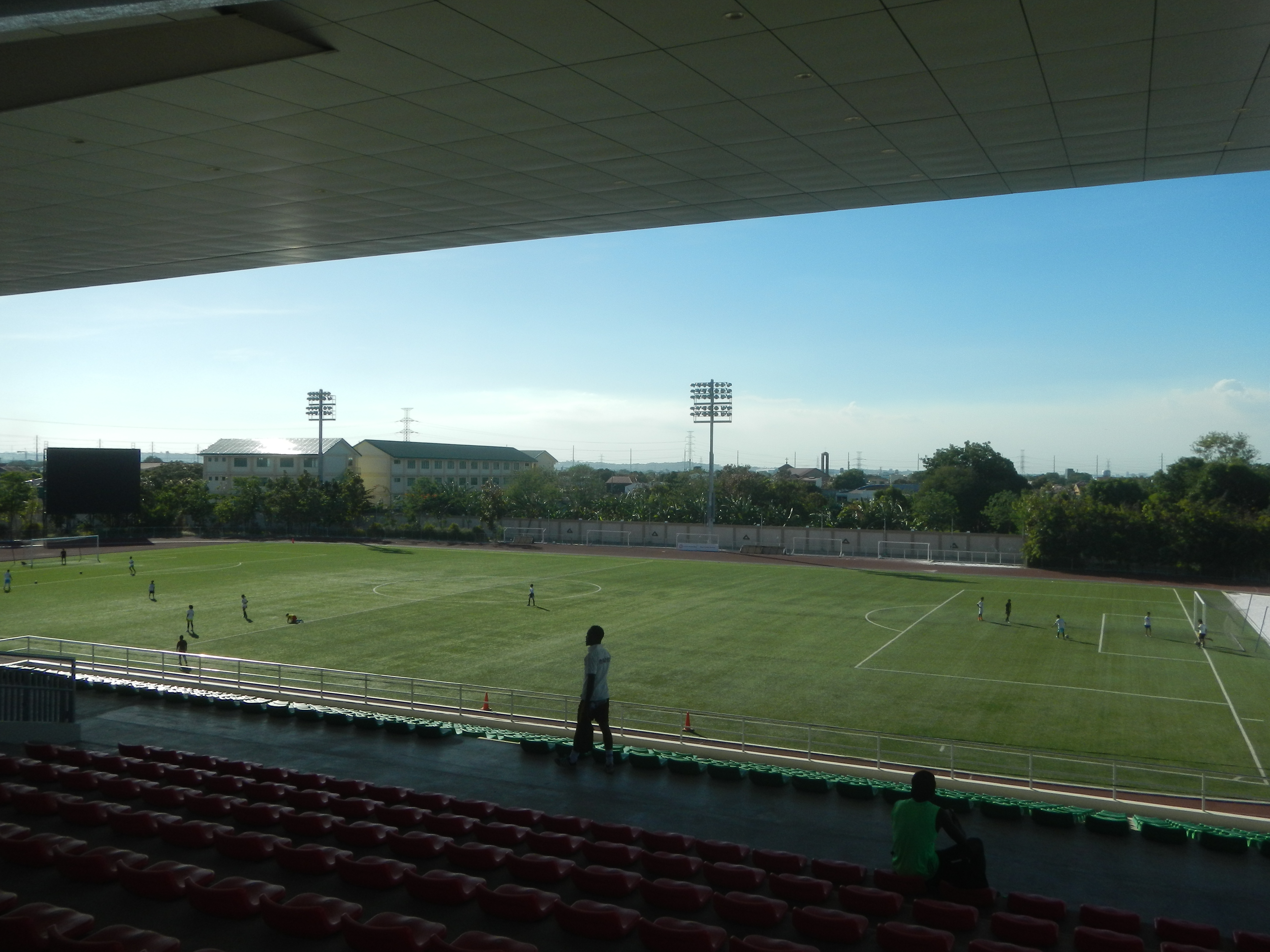 Polytechnic University of the Philippines Biñan Biñan City Hall Complex Alonte Sports Arena Biñan Football Stadium Zapote, Biñan City in Barangay Zapote 14°18'57"N 121°4'48"E Platero 14°19'23"N 121°5'41"E San Antonio 14°19'58"N 121°5'23"E Santo Niño 14°19'22"N 121°5'0"E Soro-Soro 14°19'35"N 121°3'39"E Biñan City of Biñan, Laguna; Legislative district of Biñan (Note: Judge Florentino Floro, the owner, to repeat, Donor Florentino Floro of all these photos hereby donate gratuitously, freely and unconditionally all these photos to and for Wikimedia Commons, exclusively, for public use of the public domain, and again without any condition whatsoever).